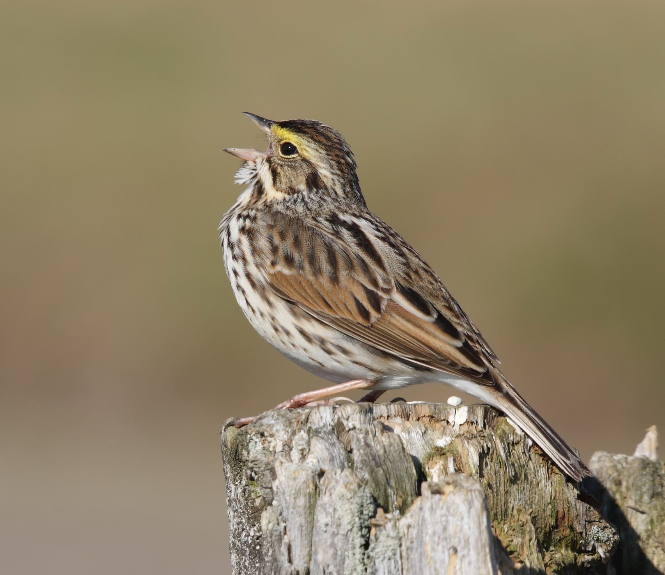 Savannah Sparrow (Passerculus sandwichensis), Cap Tourmente National Wildlife Area, Quebec, Canada